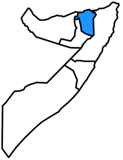 Location of Maakhir State in Somalia